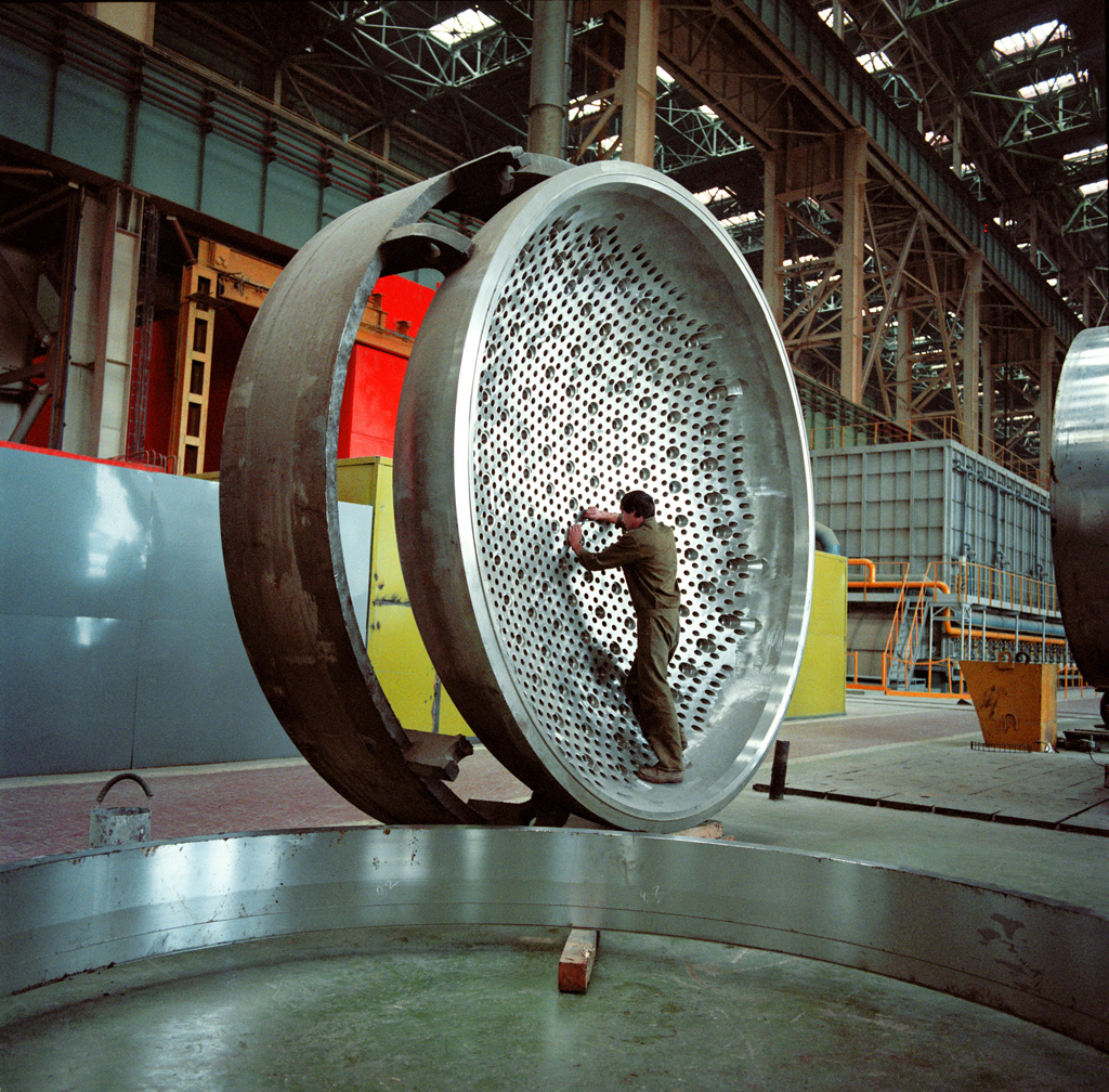 “Technical control at Atommash plant”. Expert of technical control department of nuclear power equipment manufacturer Atommash checks steam generator's bottom.